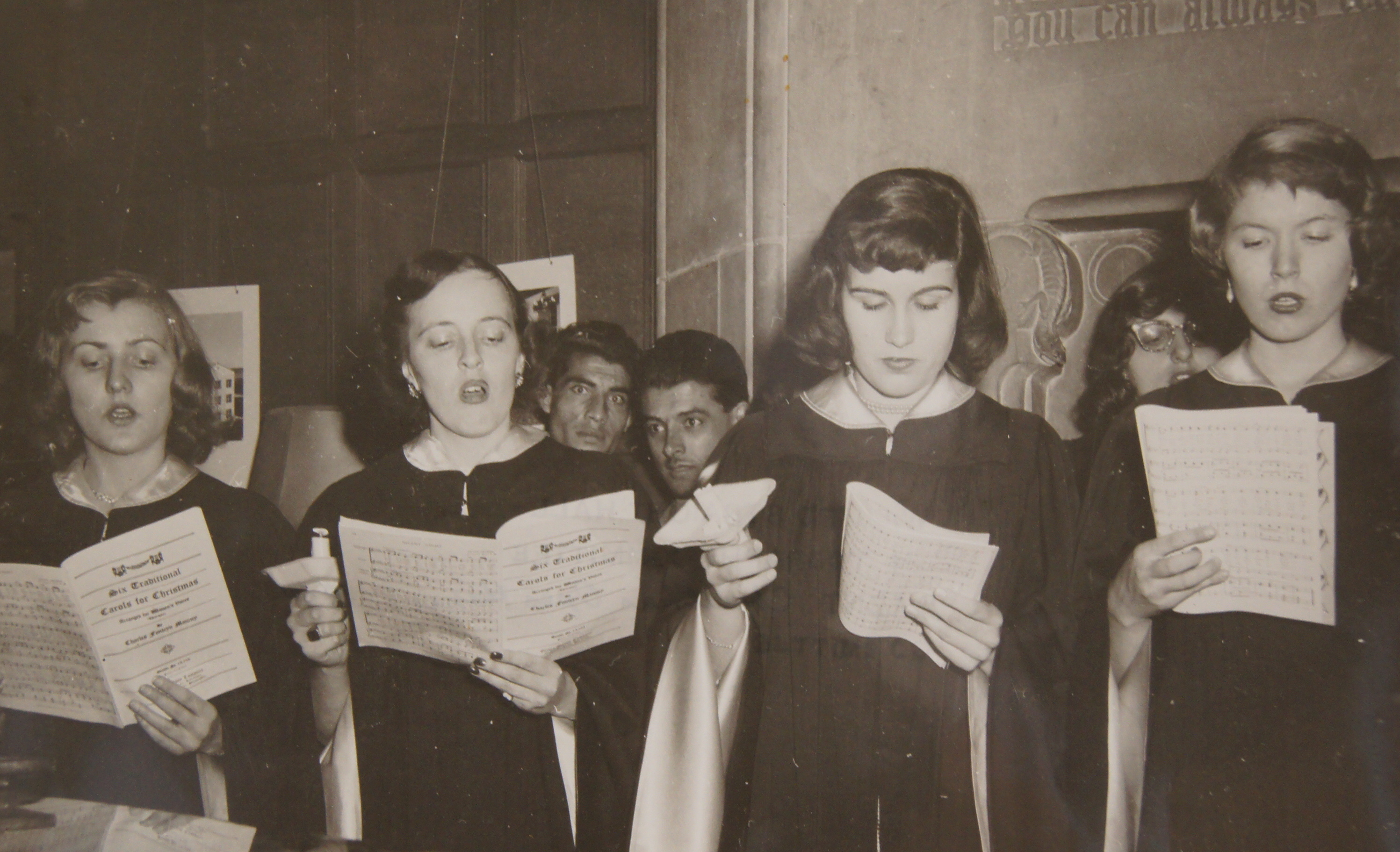 A group of Chorus women performing during a Christmas Open House circa 1950